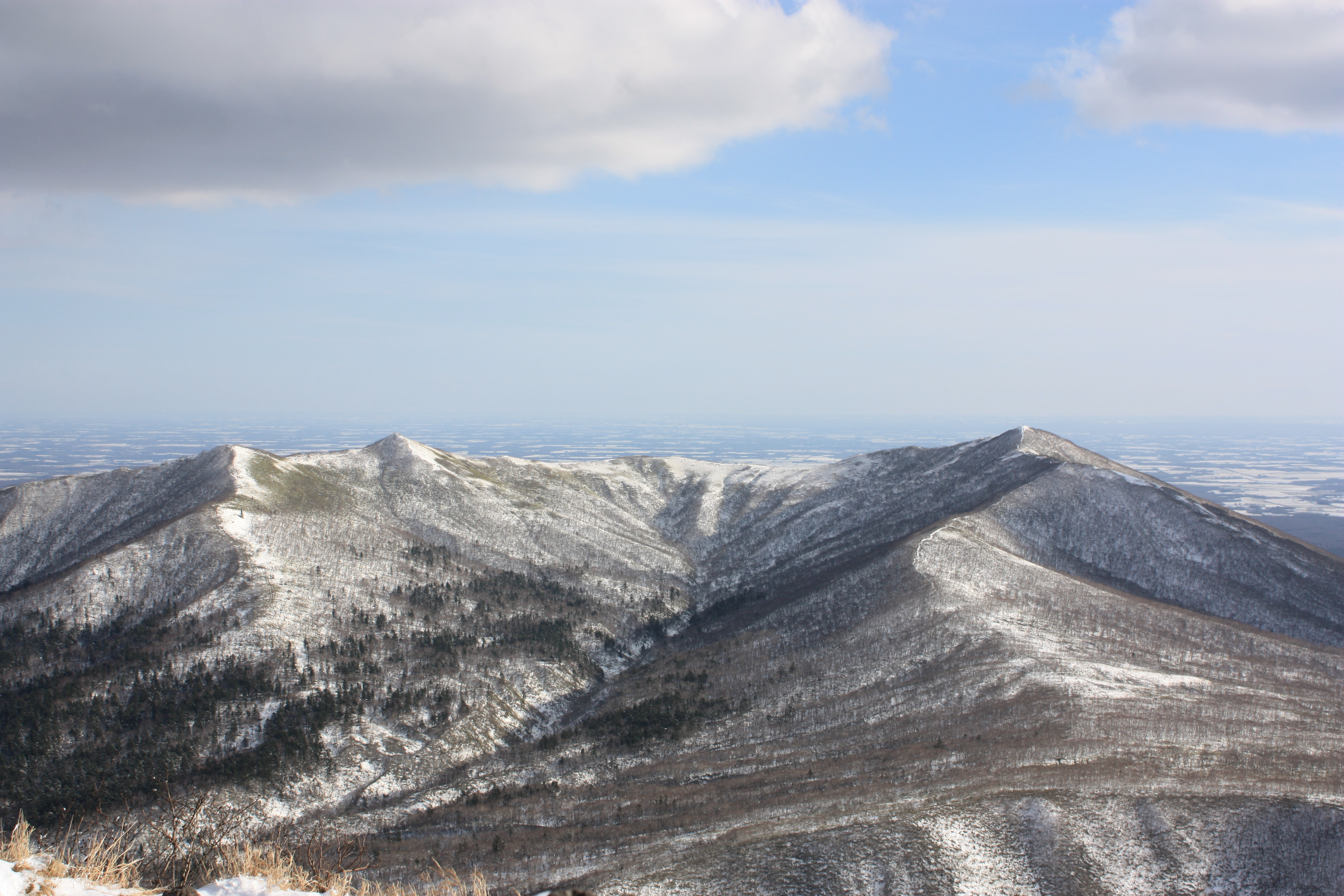 Mount Nishibetsu seen from the northwest. Taken from Mount Mashu.